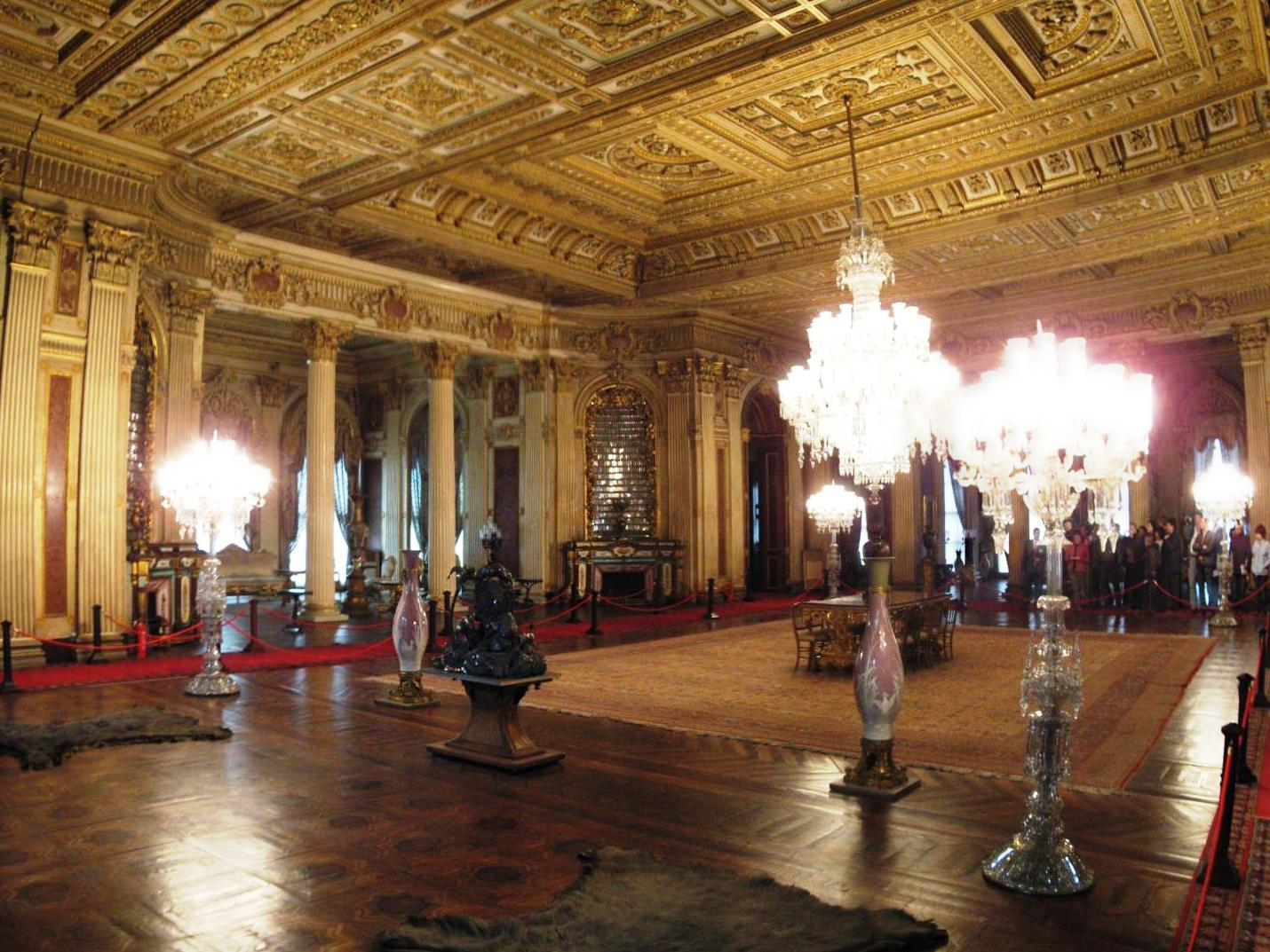 The Ambassadors' Hall (Süfera Salonu) in Dolmabahçe Palace in Istanbul. (#7 on the tour)